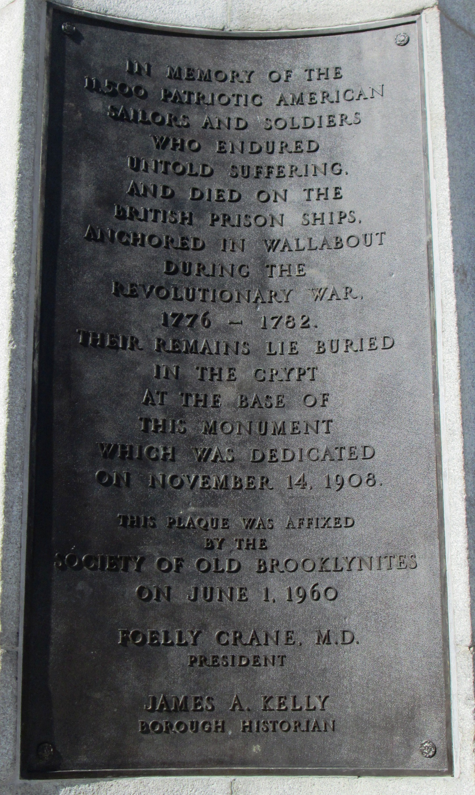 The Prison Ship Martyrs' Monument was built in 1906-09 and was designed by Stanford White of McKim, Mead and White, with sculptures by Adolph Alexander Weinman. The Doric column topped by a bronze brazier commemorates the 11,500 American prisoners who died aboard 11 British prison ships anchored in Wallabout Bay from 1776-83, during the American Revolutionary War. The brazier, sculpted by Weinman, is 148 feet above the ground and once had an eternal flame. The monument is located at the center of Fort Greene Park within the Fort Greene Historic District. (Sources: AIA Guide to NYC (5th ed.) and Guide to NYC Landmarks (4th ed.)) This image shows tghe plaque at the base of the monument on the south-southeast side.